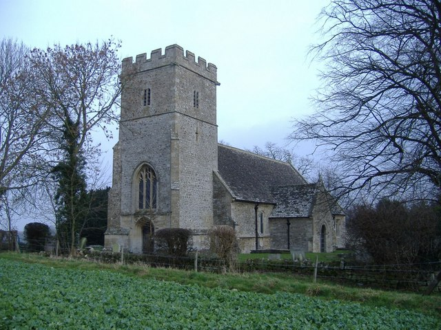 St John the Baptist, Hannington In an isolated position, approximately half a mile south east of the village.